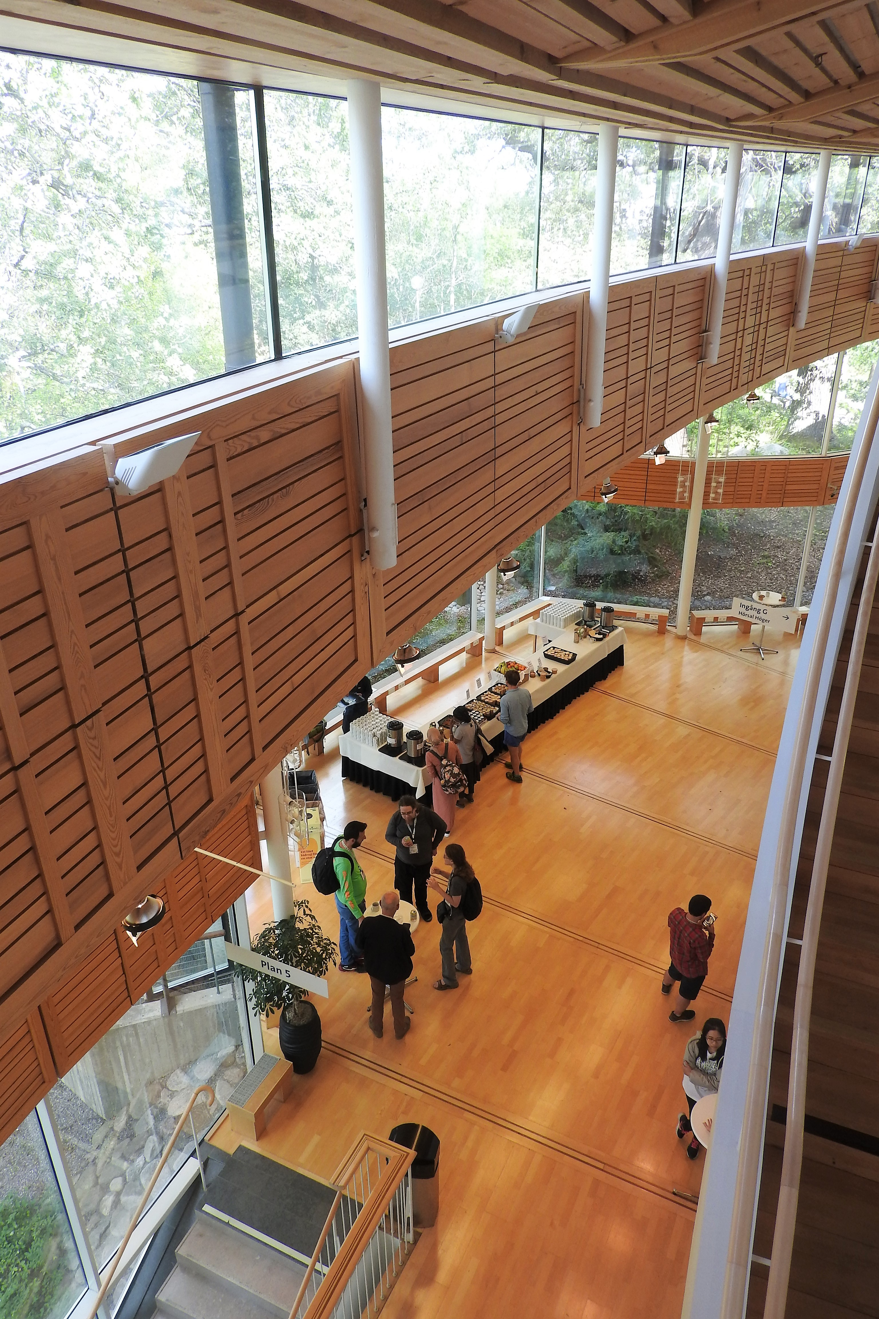 Looking down on lobby. Time is off by six hours due to photographer's error.